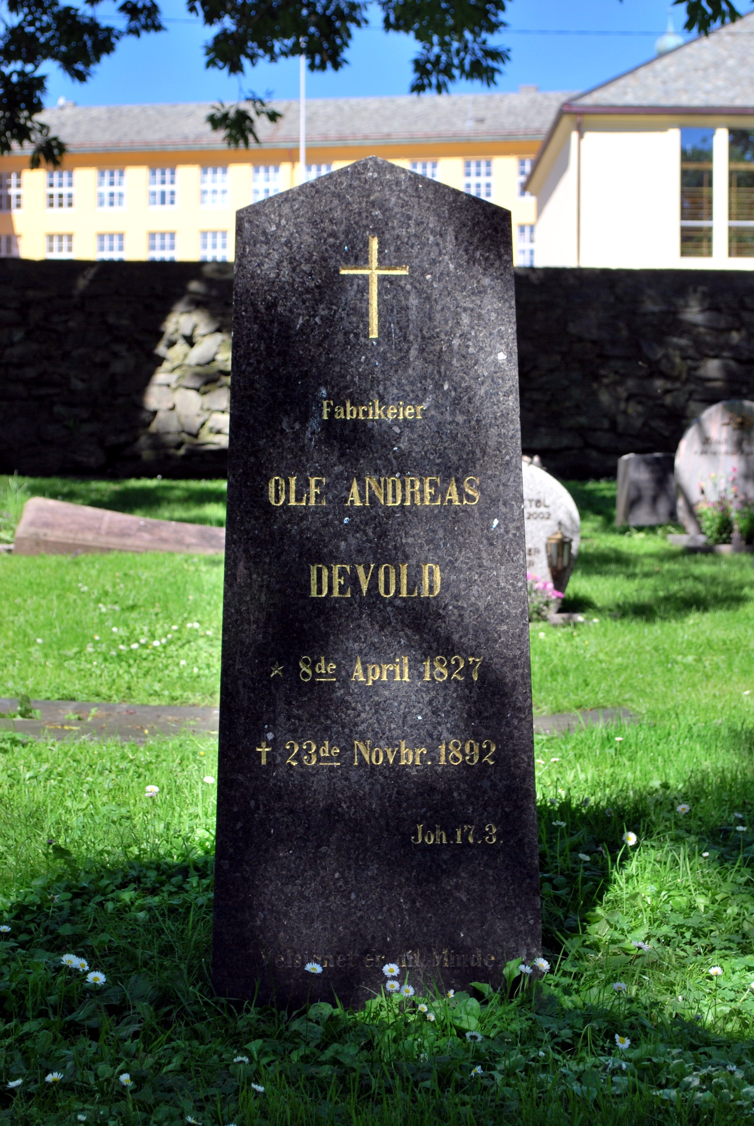 Gravestone of textiles manufacturer and businessman Ole Andreas Devold by Ålesund kirke.